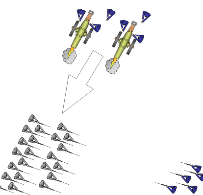 Enfilade_Fire.png - drawing explaining enfilade fire concept (military)